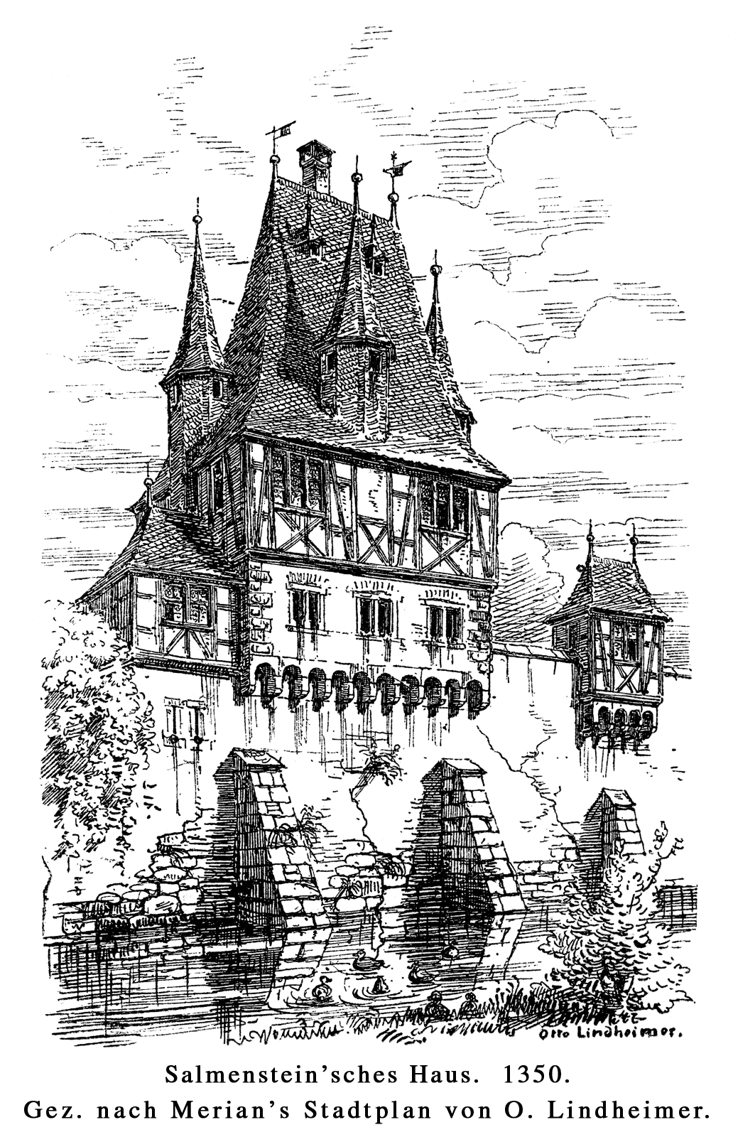 Frankfurt on the Main: So-called Salmensteinsches Hause (house of Salmenstein) build around 1350 atop the city walls of the second city expansion begun in 1343